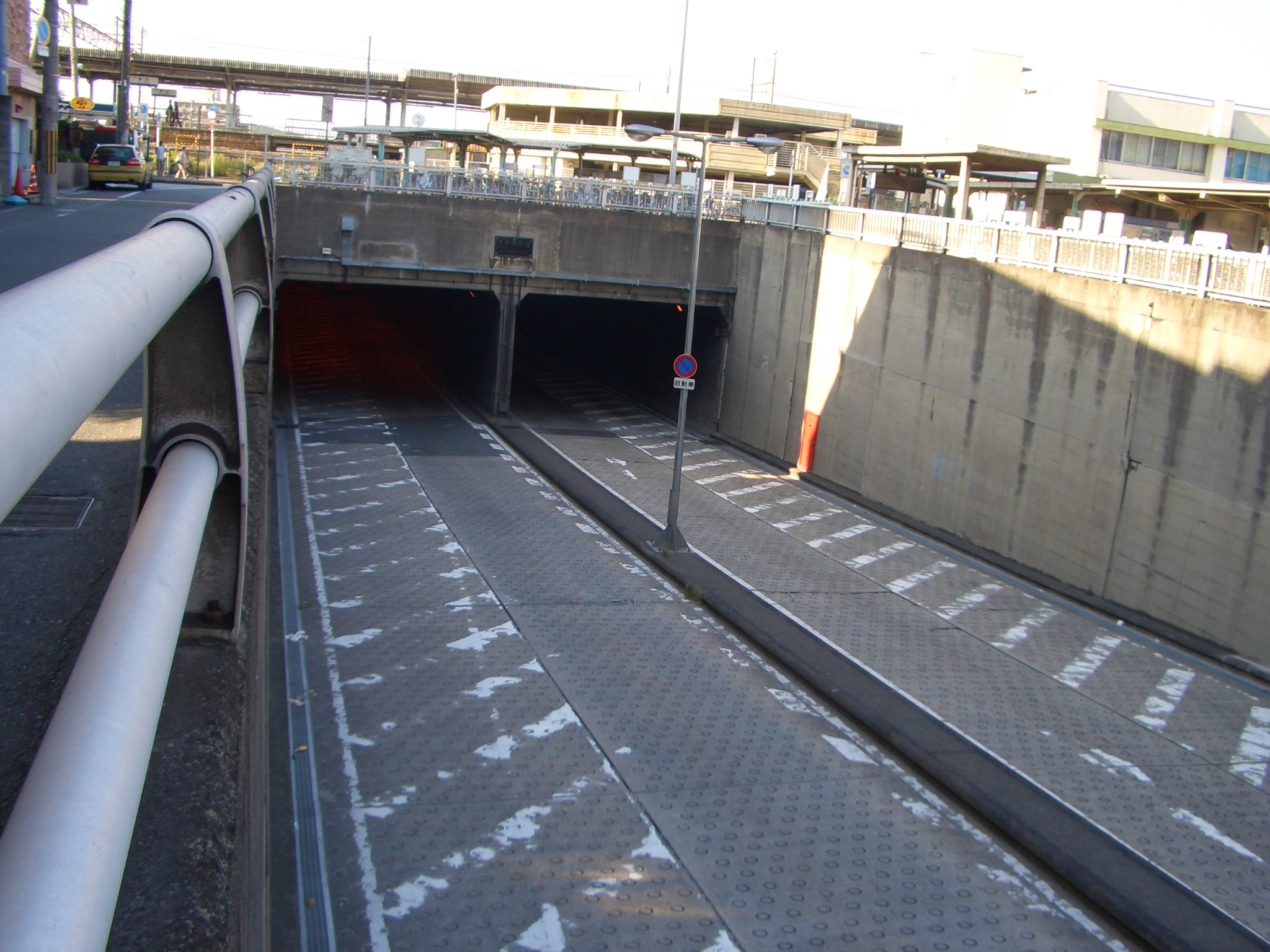 Kisibe underpass near Kisibe Station in Suita City,Osaka,Japan. 岸辺地下道（大阪府吹田市岸辺駅横）